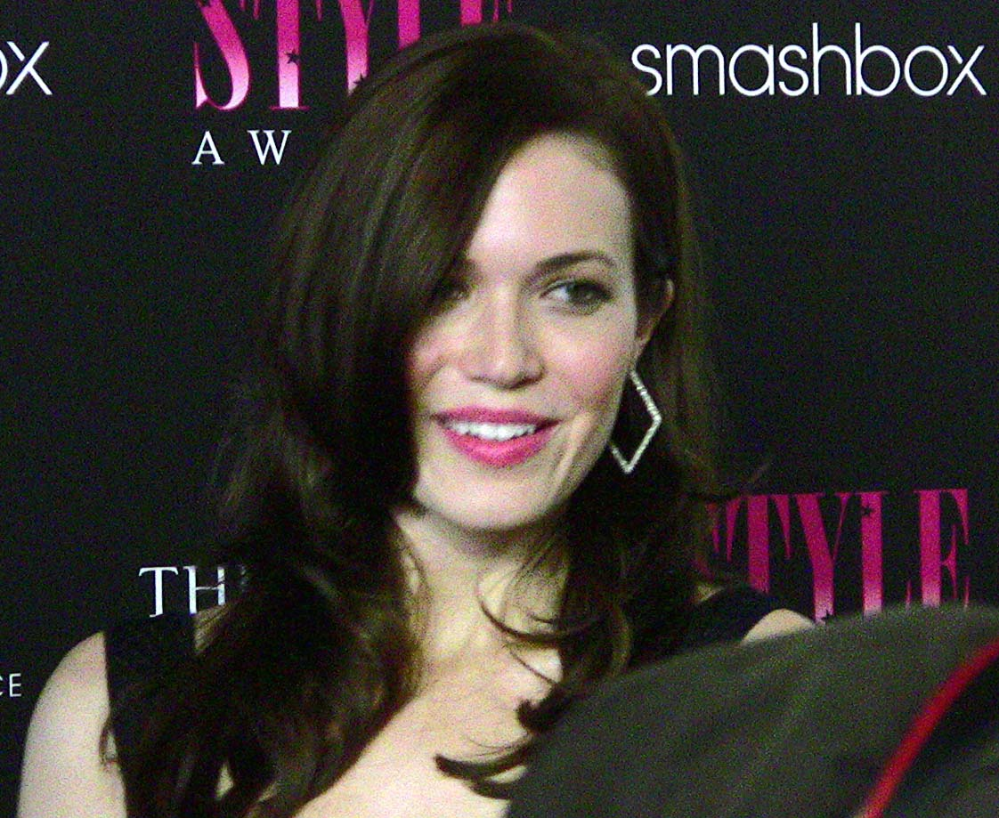 Mandy Moore at the 2011 Hollywood Style Awards: Red Carpet Report.